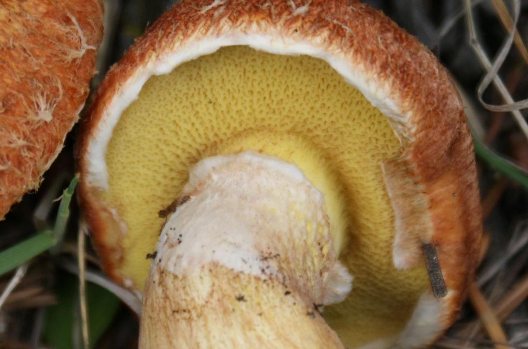 Fruit body of the fungus Suillus lakei (Murrill) A.H.Sm. & Thiers. Specimen photographed in Burmis, Alberta, Canada.